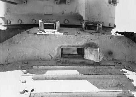 Front view of the Valentine tank